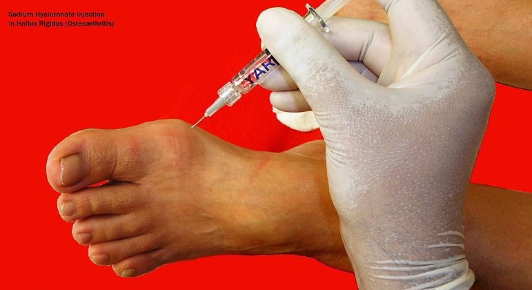 Sodium Hyaluronate Injection in Hallux Rigidus